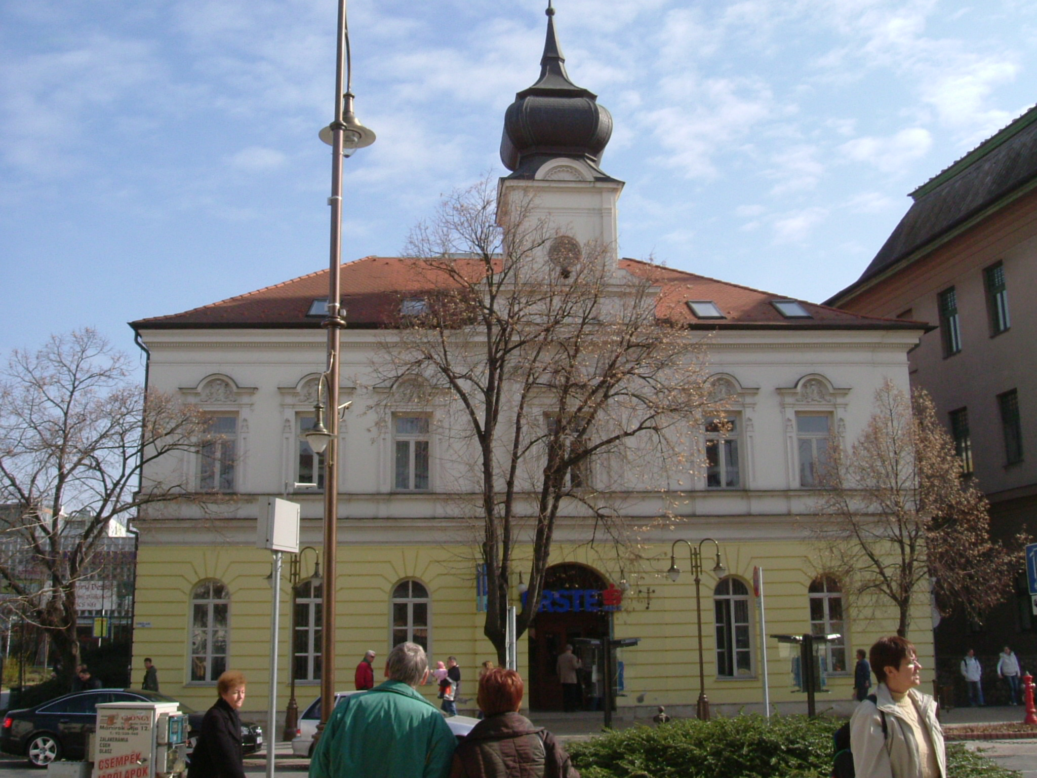 Zalaegerszeg - Hungary. Old hospital, "ispita". Architect: Zoltán Jakabffy (1877–1945)